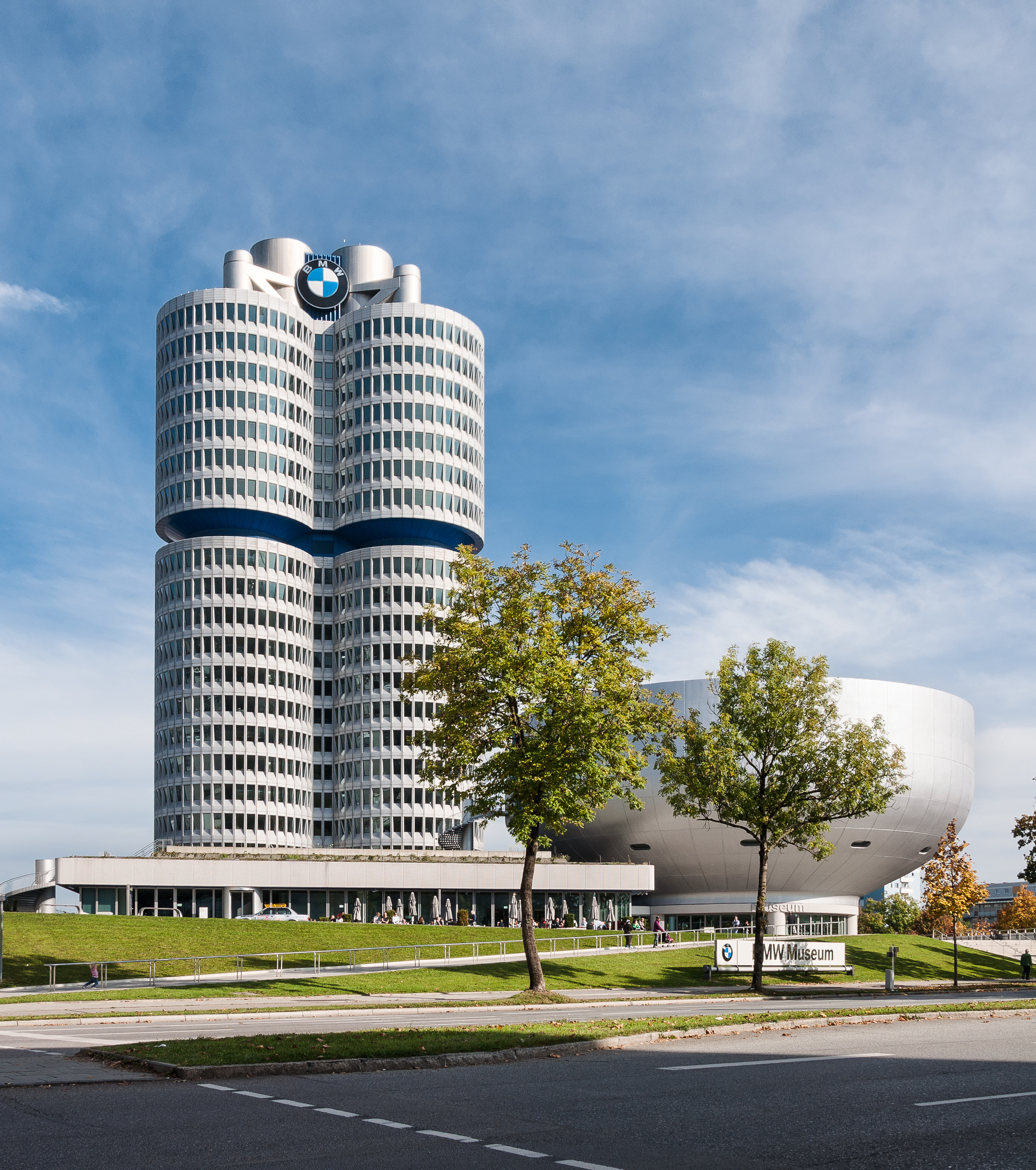 BMW tower (Vierzylinder), Munich, Germany.